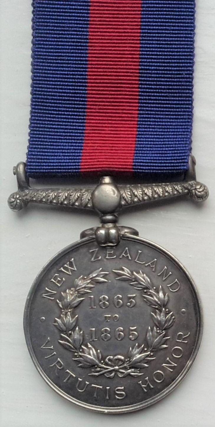 Campaign medal awarded to both British and local New Zelandmilitia for service in the Maori Wars that took place between 1845-1866.